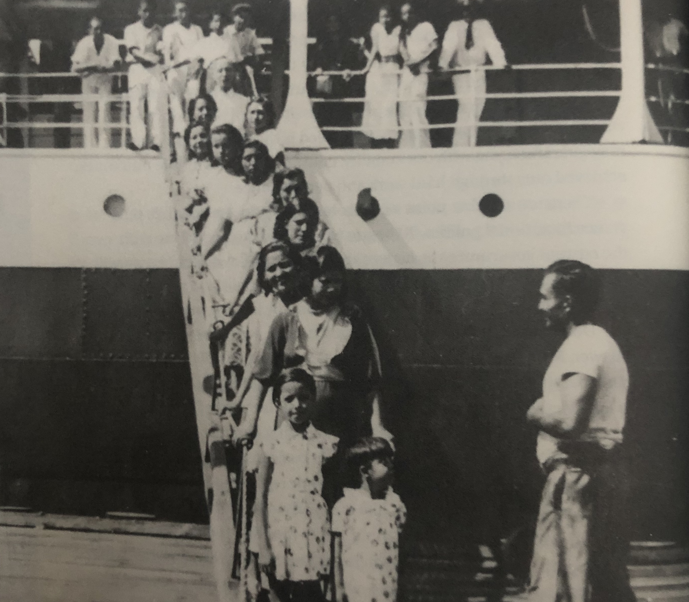 "El Argil" took passengers from San Pedro, California to Baja California, Mexico, in September 1935.